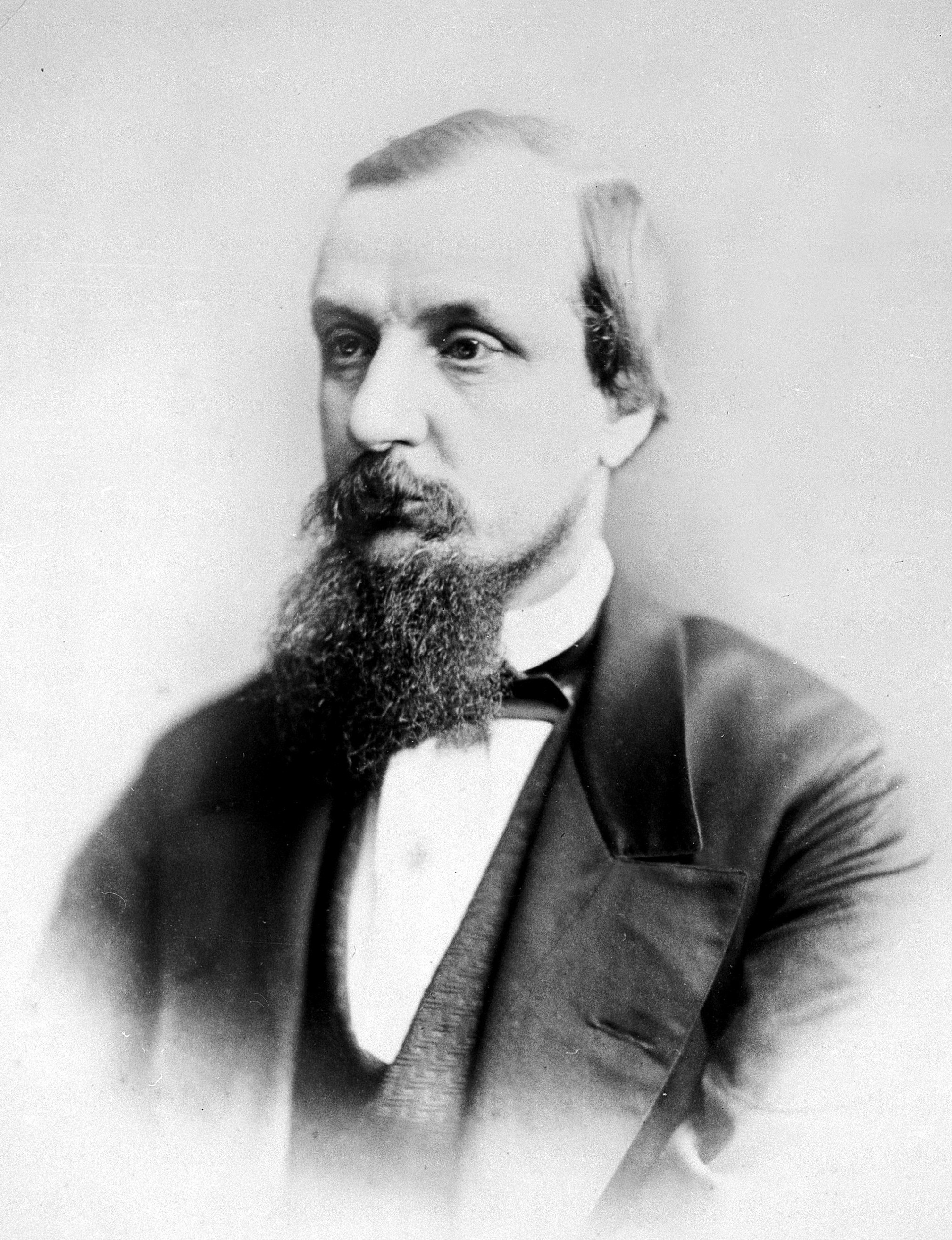 J. Hutchinson